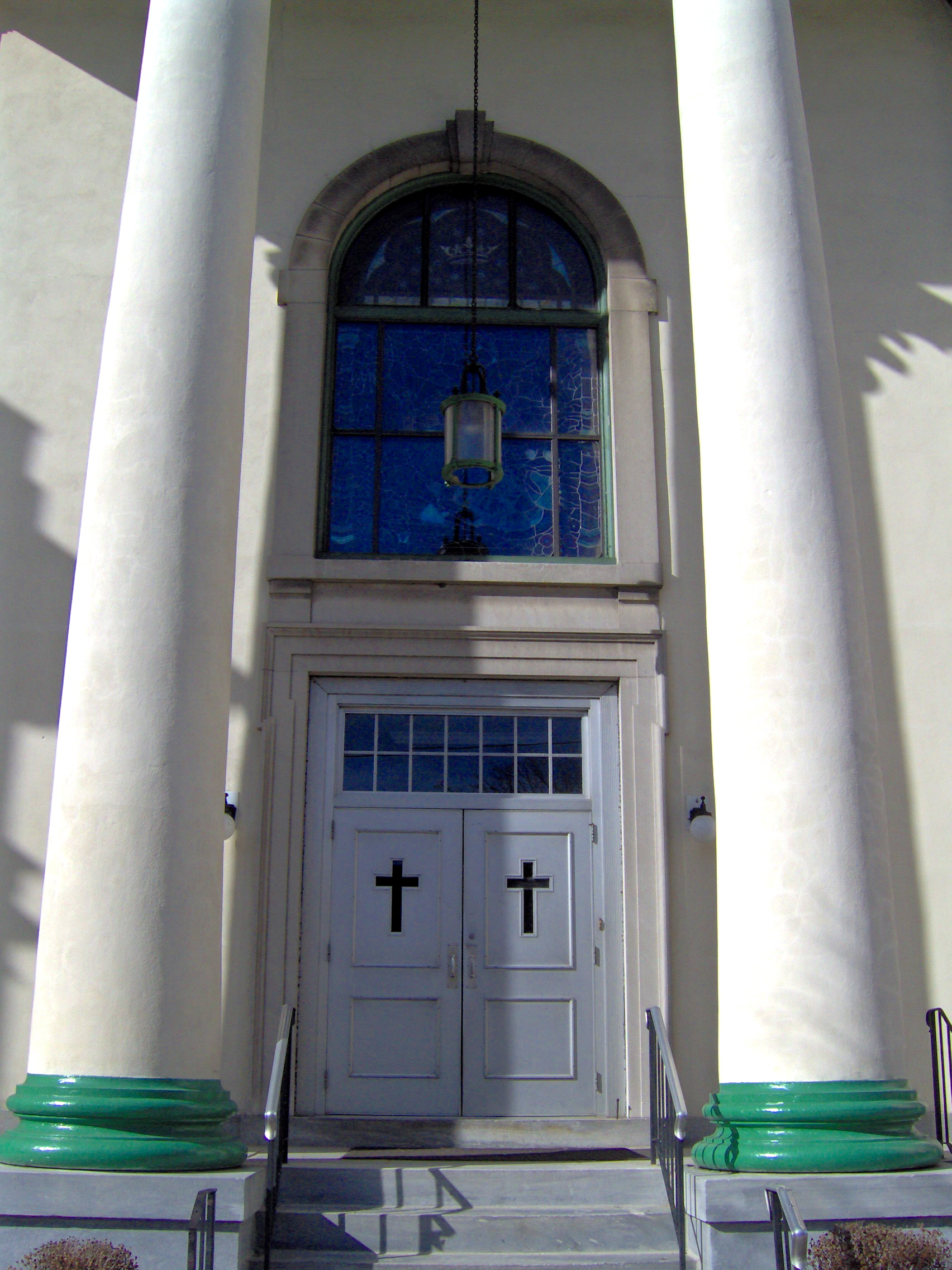 St. George Coptic Orthodox Church in Norristown, Pennsylvania (serving Philadelphia). Here, you can see the church doors with Greek revival columns, as the building was not originally owned by the Copts. The original source of the image can be found here.